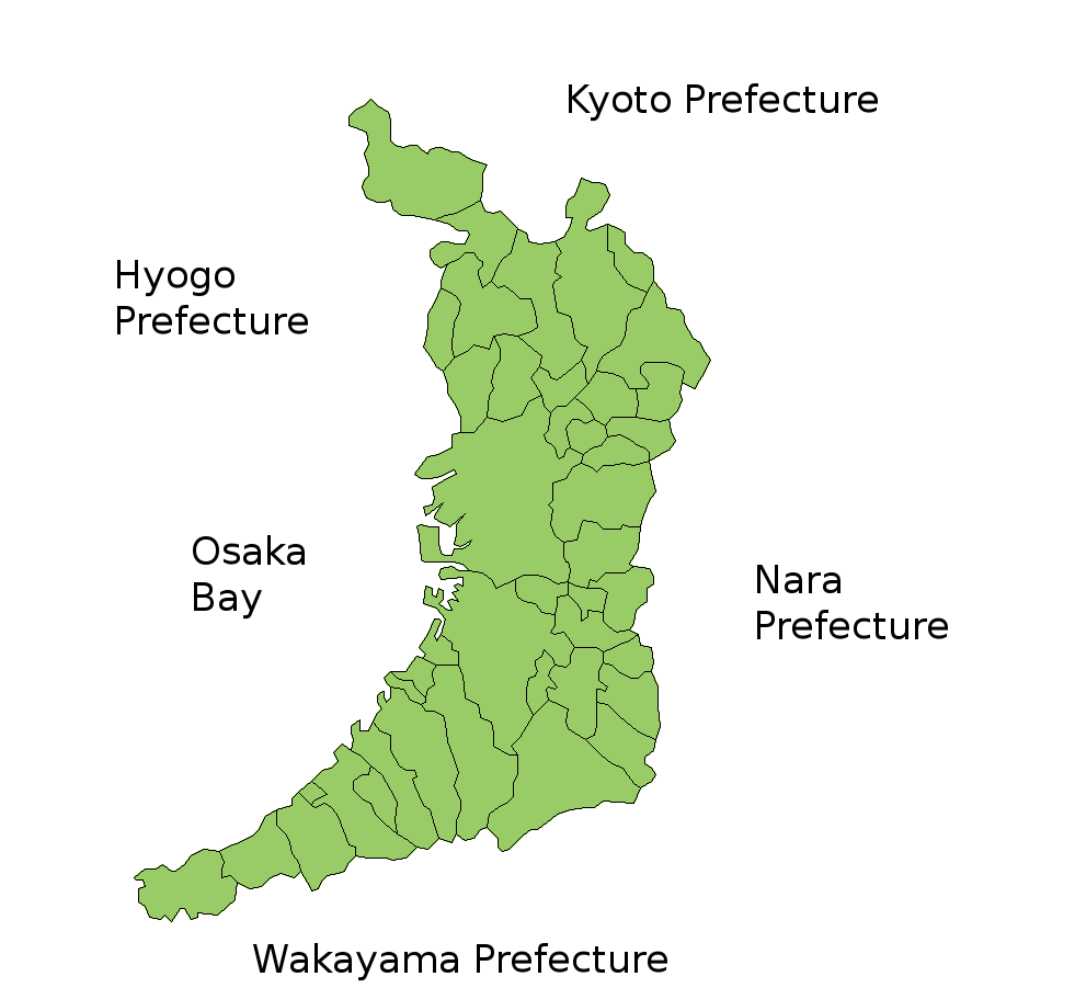 Map of Osaka Prefecture, Japan. Thanks to Aoki Shigenobu and [1]. Colors from Image:TokyoMapCurrent.png by User:Fg2.